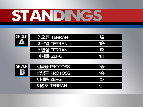 Bacchus starleague graphic package 조선말: 박카스 스타리그 그래픽 패키지.